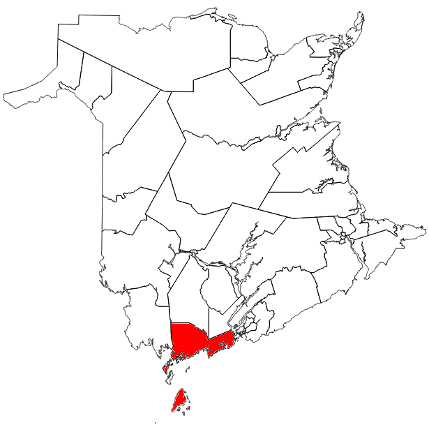 The riding of Charotte-The Isles in relation to other New Brunswick electoral districts.